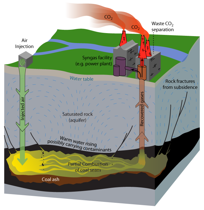 This figure shows the basic outline of the underground coal gasification process. The original caption stated "Underground Coal Gasification involves igniting a coal seam underground and pumping out the partially burned gases that result" This figure was taken from the website entitled "Alaska's Wild Resource Web" and the specific article "Underground Coal Gasification"